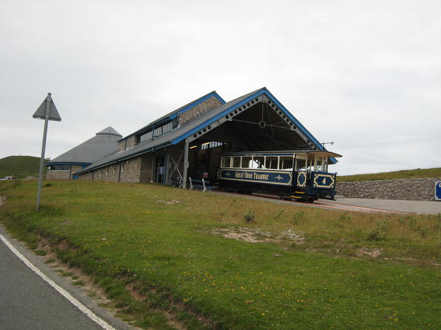 Great Orme Tramway midway station The funicular tramway on the Great Orme is in two sections. A funicular railway has two vehicles connected and counterbalanced on a length of cable so that one descends as the other ascends. An electric motor at one of the termini then drives the cable to which the cars are permanently attached. The cable is one of the factors determining the length of the railway. The tramway on the Great Orme is split in to two sections, the upper and lower parts being two independent funiculars with passengers having to change vehicles at this midway point. The motors (at one time steam engines) drive both the cables for the lower and upper sections from this building which has be heavily renovated and modernised in recent years..